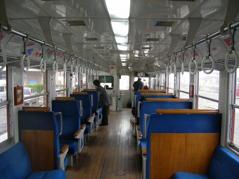 Kurihara Den-en raliway KD95 inside